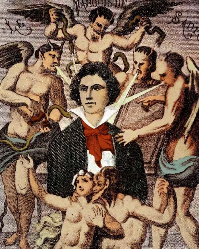 Imaginatory portrait of the Marquis de Sade